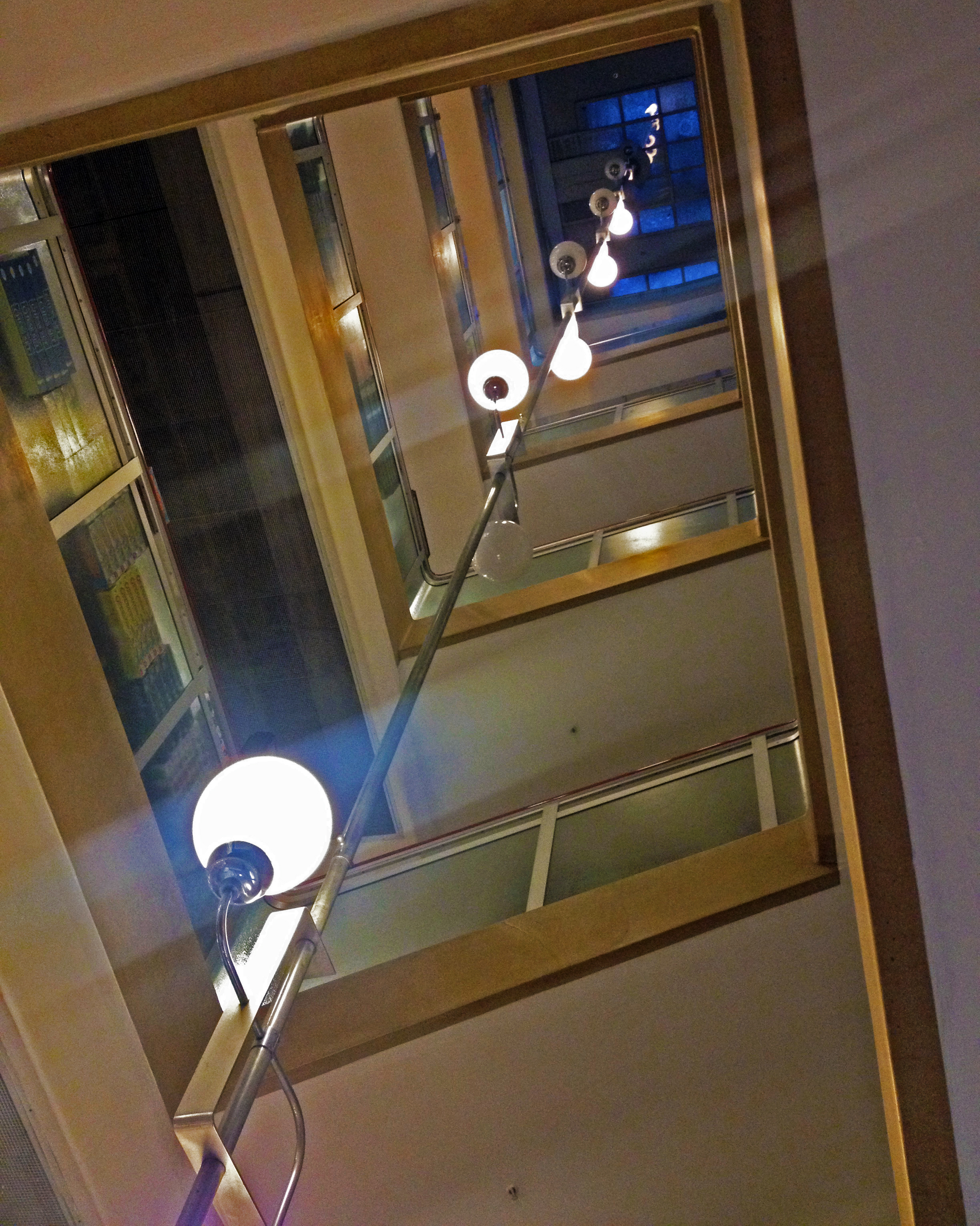 Image of the Grade Listed light fitting suspended in the stairwell of the Simpsons Piccadilly store